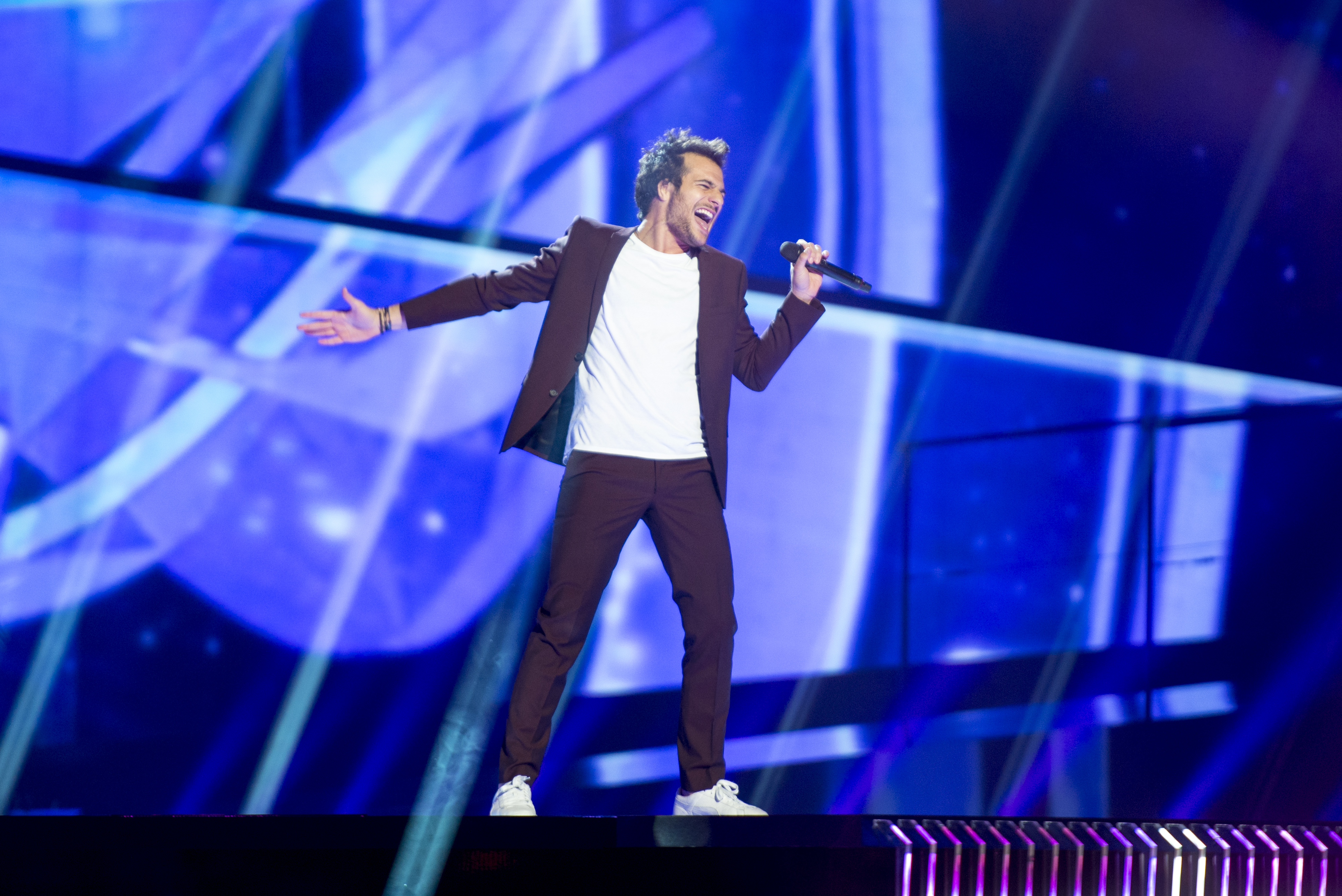 Amir representing France with the song "J'ai cherché" during the first dress rehearsal of the final of the Eurovision Song Contest 2016 in Stockholm. (Help translate this text)